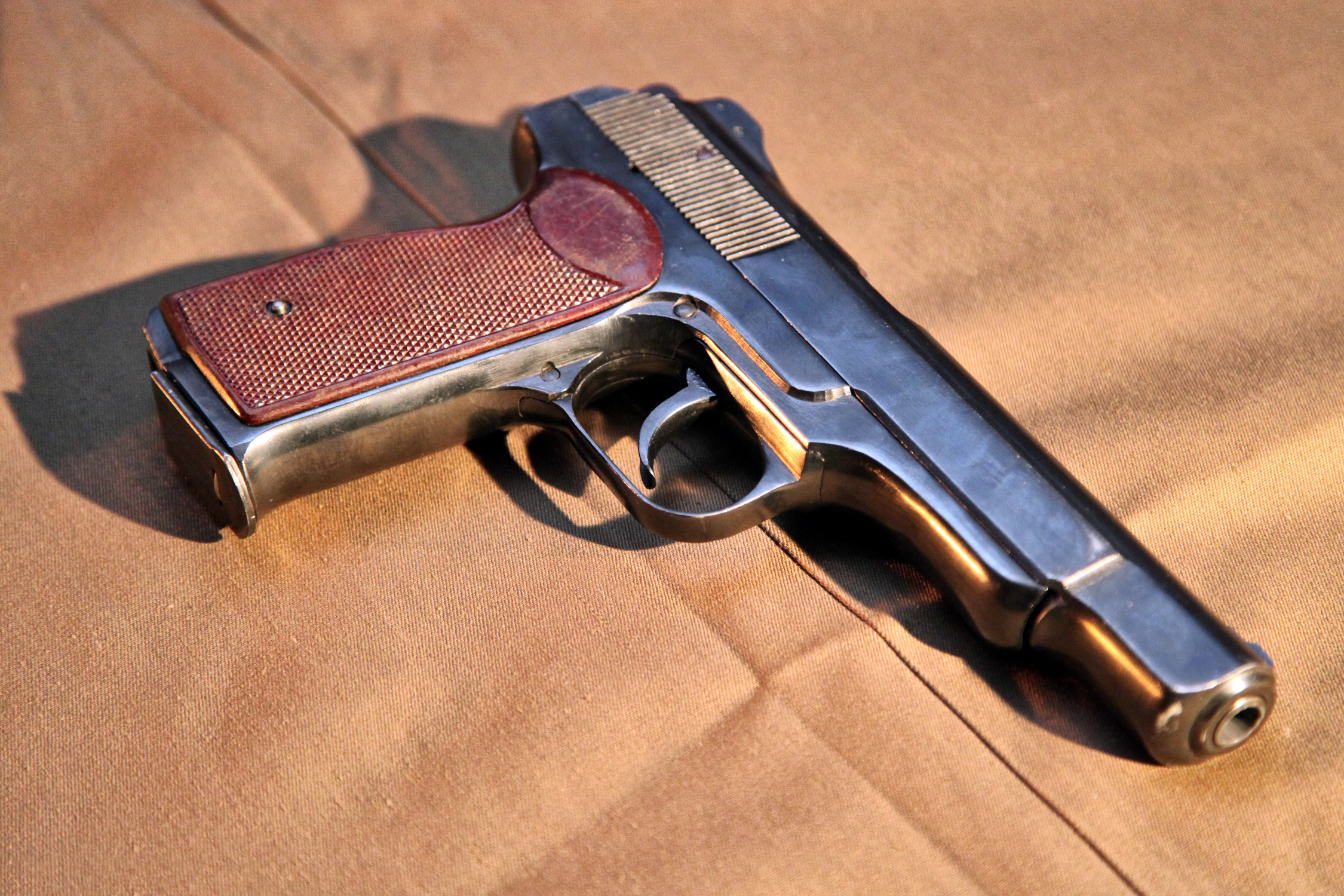 9mm Stechkin APS pistol